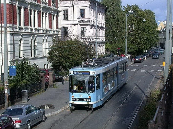 SL79 112 tram at Uranienborgveien holdeplass